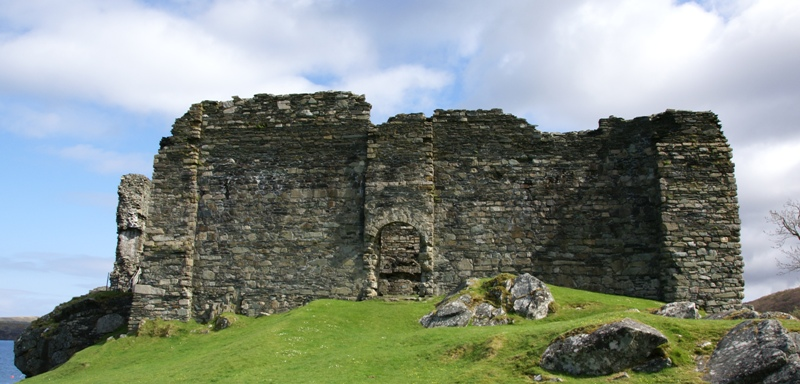 Castle Sween, Argyll, Scotland - from the south